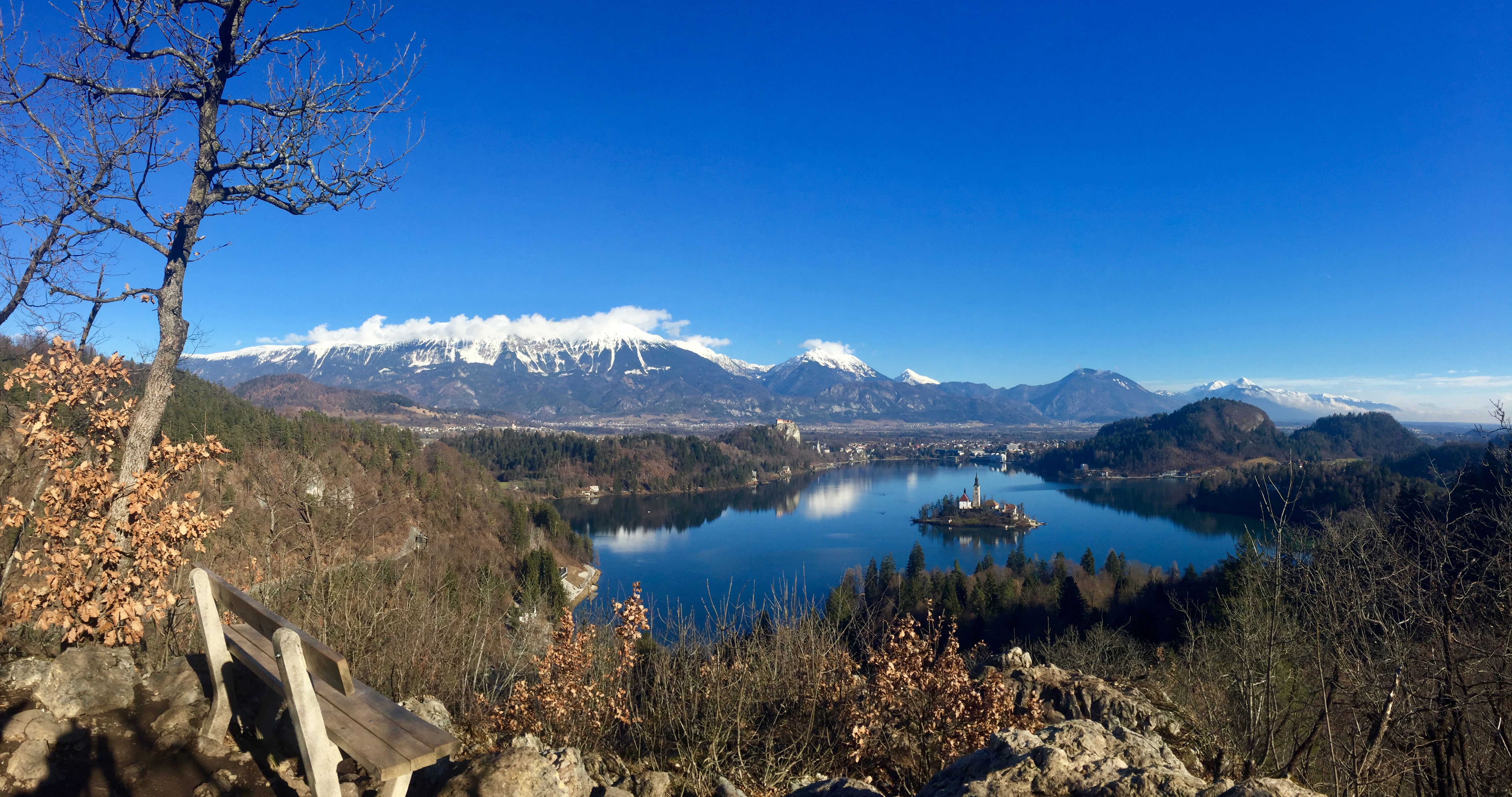 Ojstrica, 611 m, hill and view point above Lake Bled